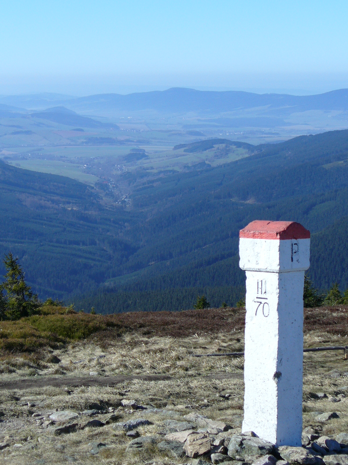 Boundary stone on the top of mountain Śnieżnik (Glatzer Schneeberg)